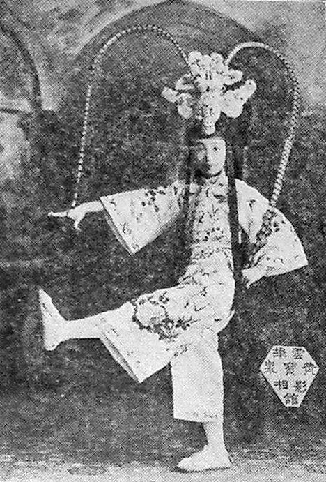 Canadian Ms. Wong Yuk Lin, Vancouver Contonese Opera Actress in 1927 中文（香港）: 加拿大卑詩省雲埠的粵劇花旦：黃玉蓮小姐 (1927年)